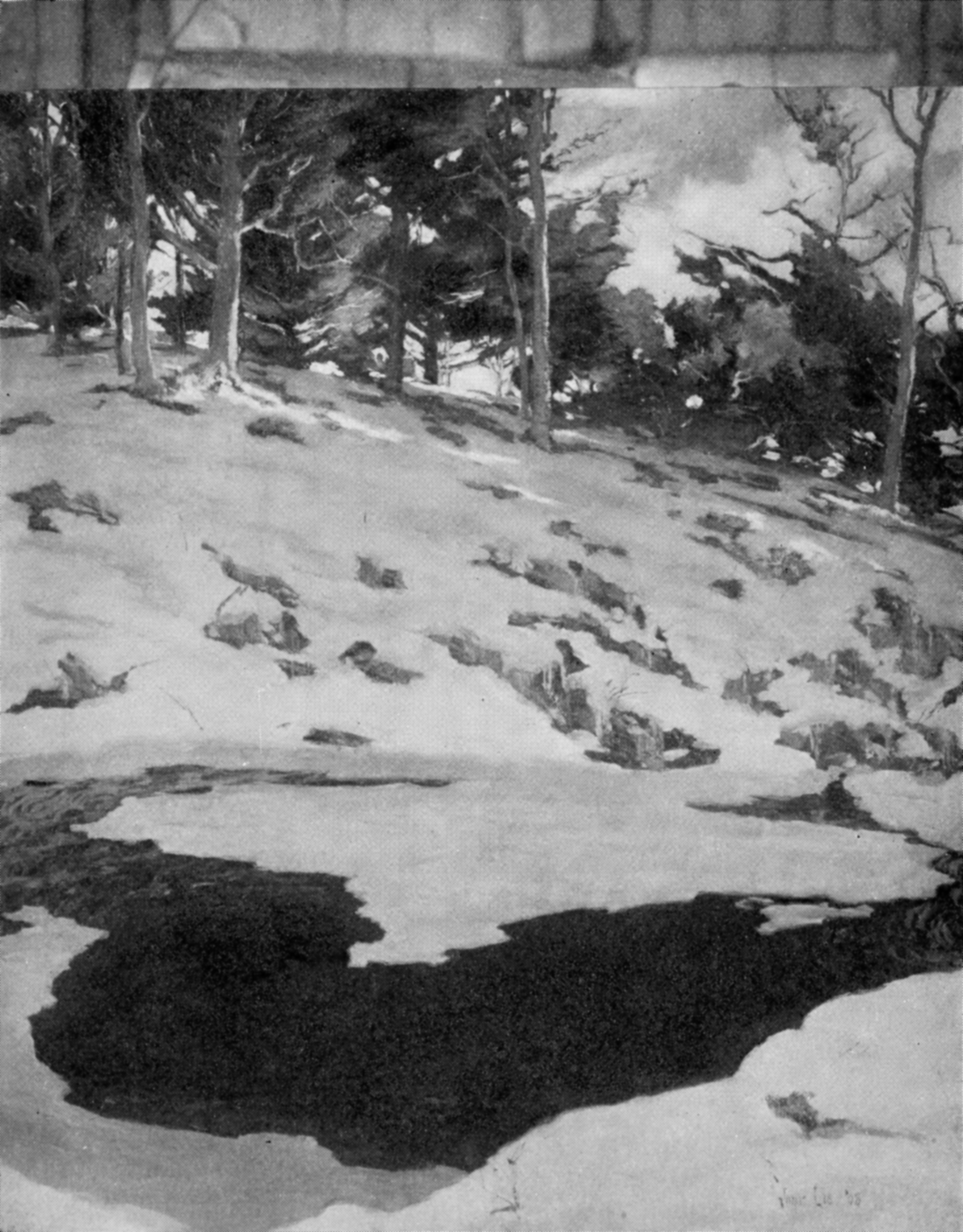 Black-and-white print reproduction of painting The Witches Pool. From the materials for the Alaska-Yukon-Pacific Exposition of 1909, held in Seattle.